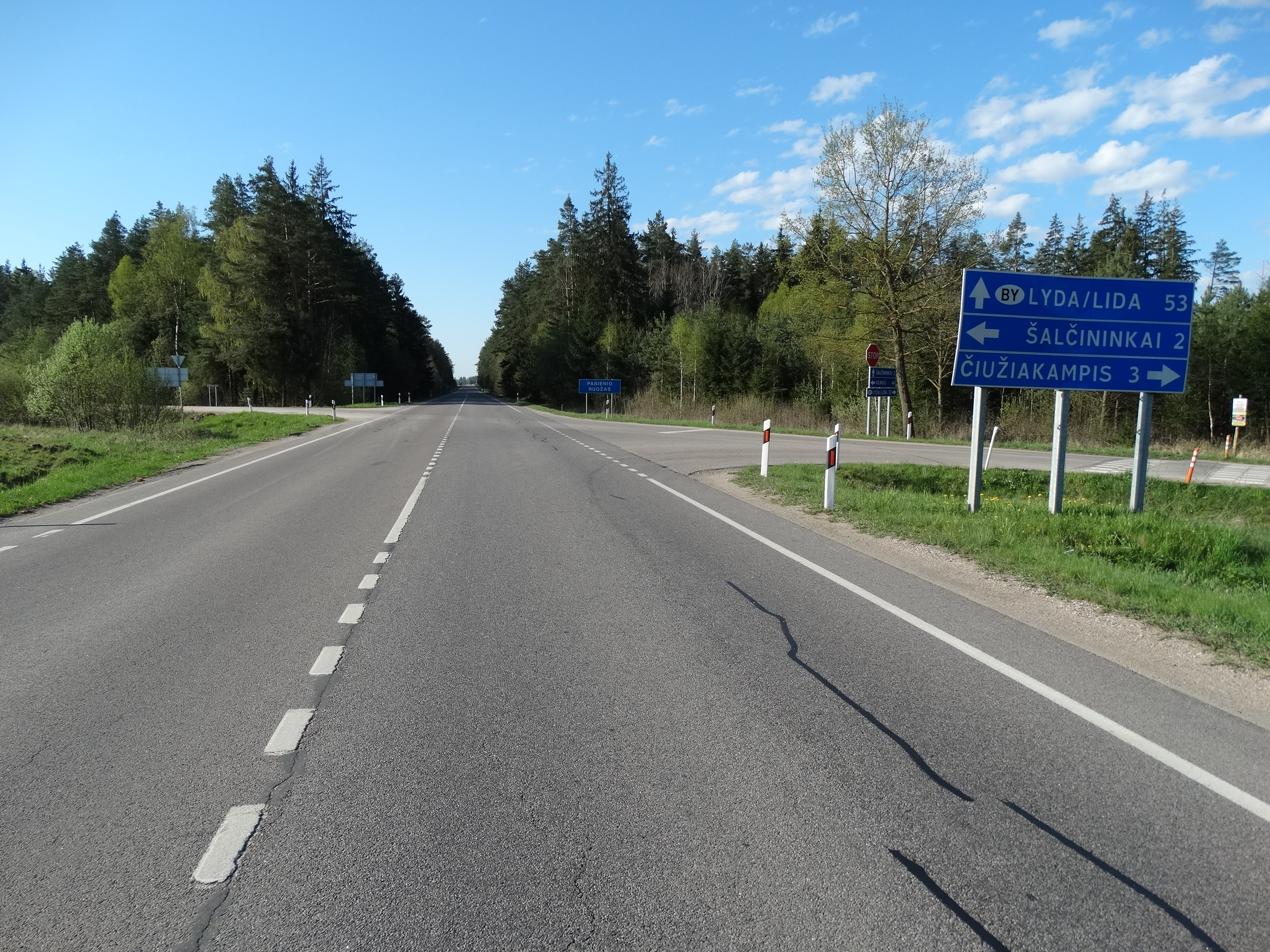 A15 highway, Šalčininkai District, Lithuania